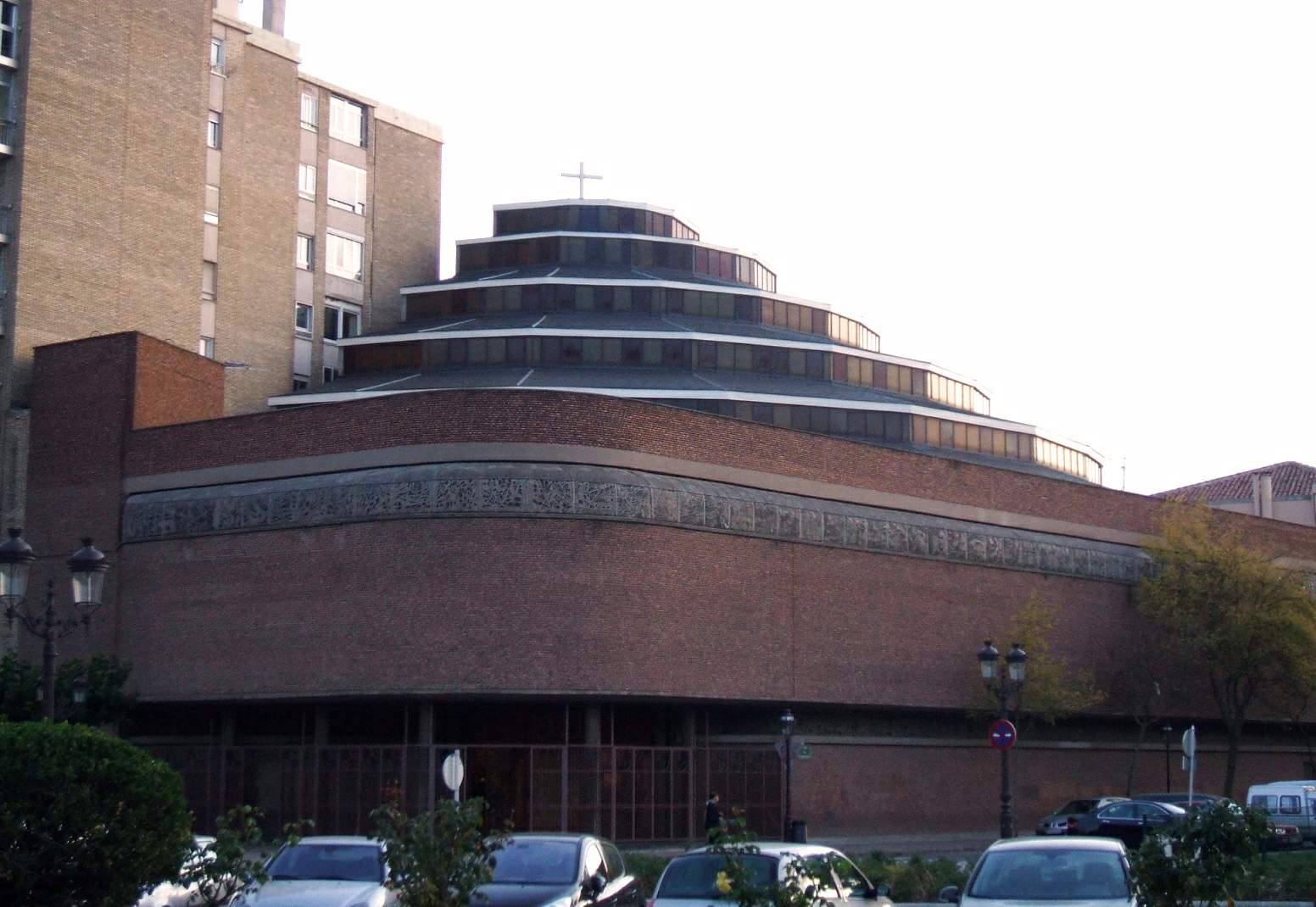 Iglesia del Carmen (PP Carmelitas Descalzos), en Burgos, Castilla y León, España